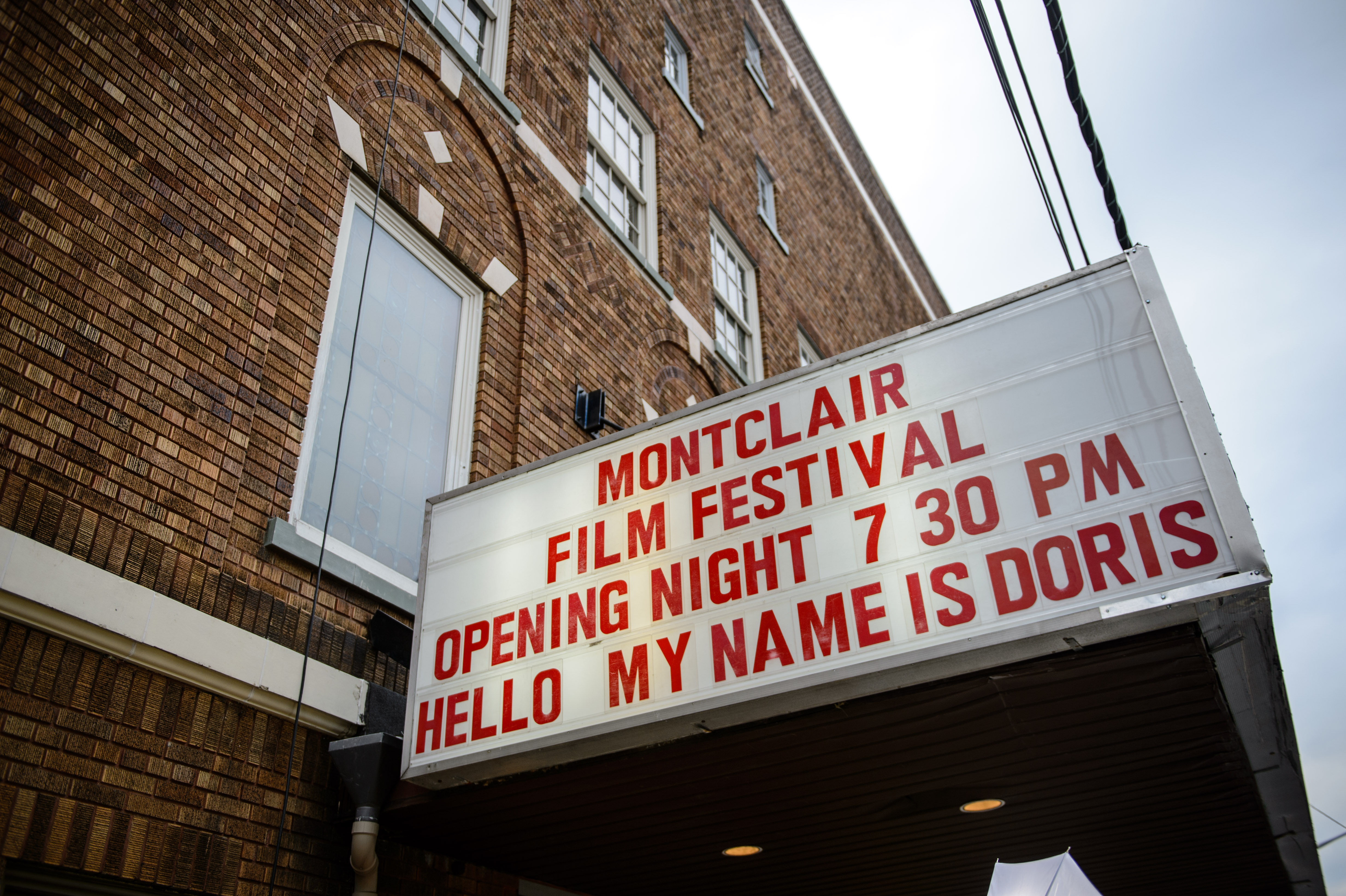 photo by “Neil Grabowsky / Montclair Film Festival”